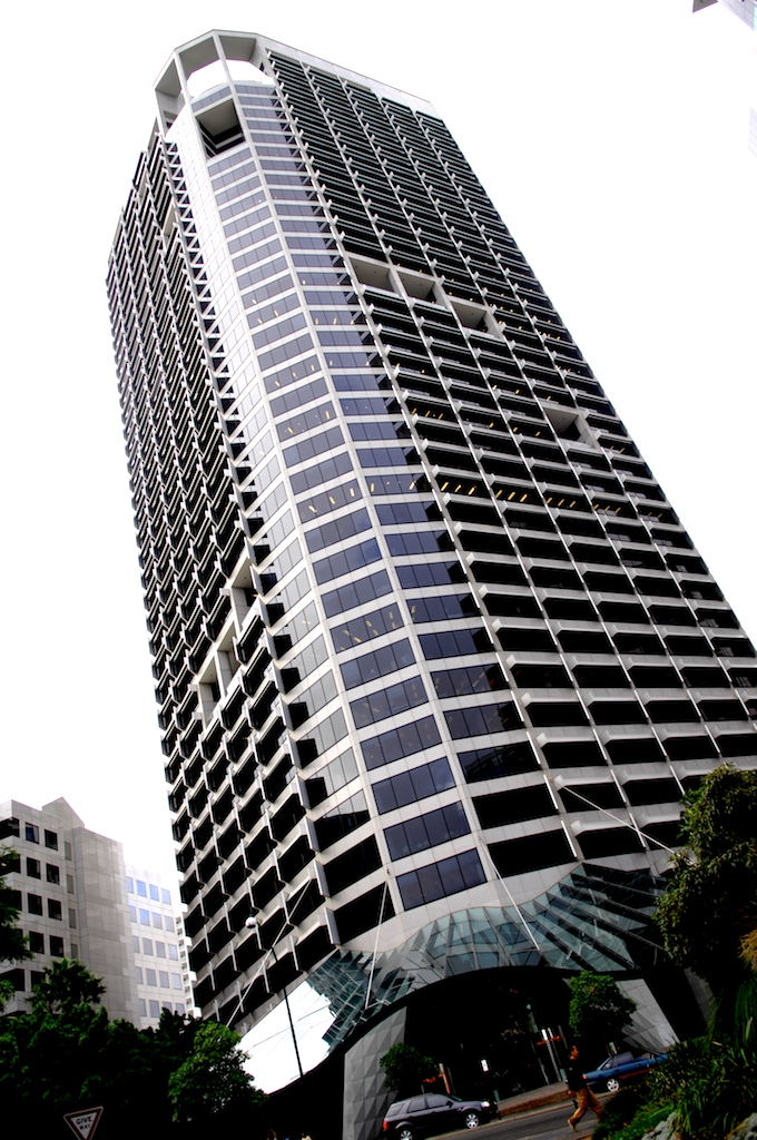 QV1, a skyscraper in Perth, Western Australia, viewed from the south.